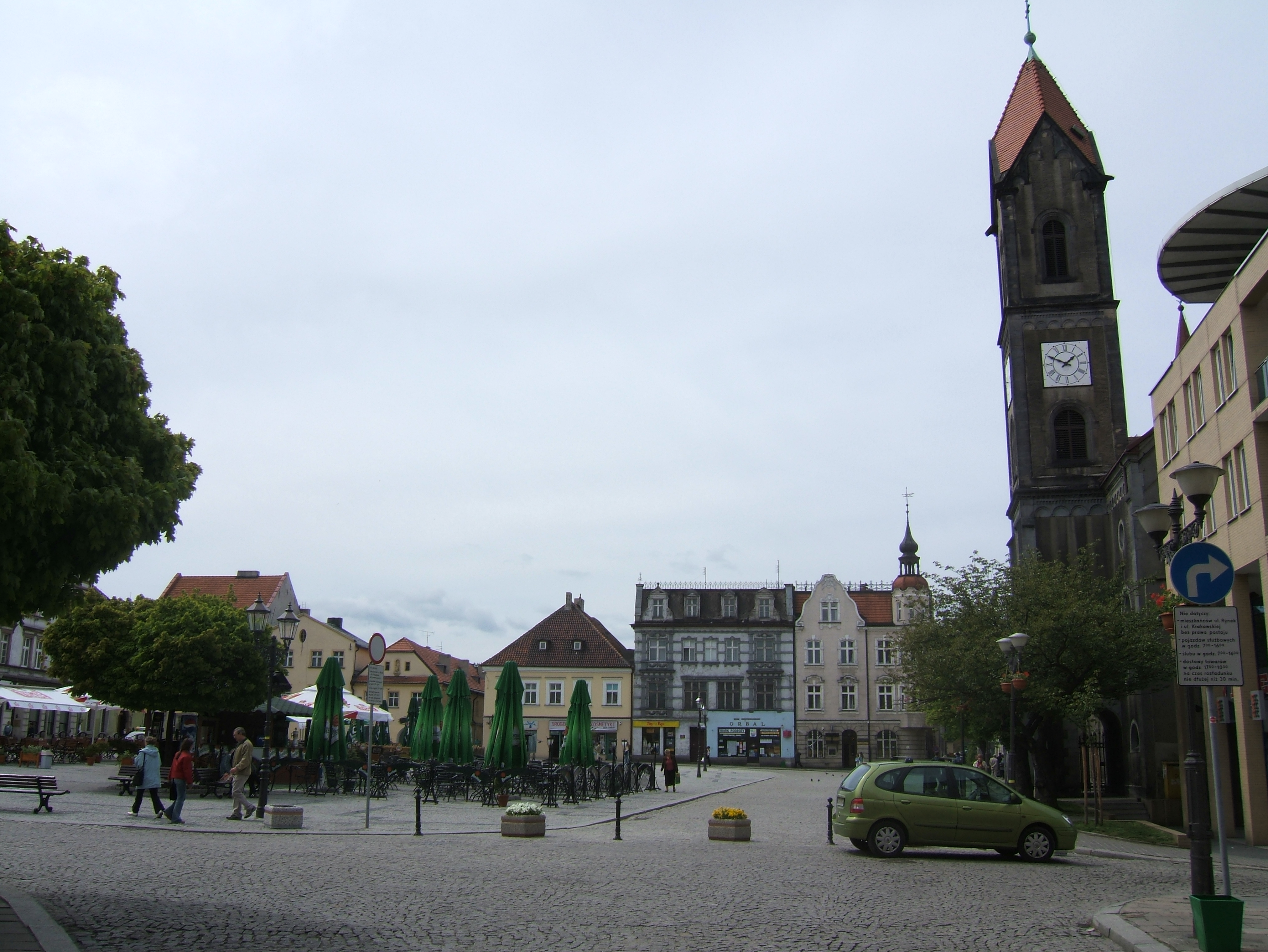 The market square (Rynek) in Tarnowskie Góry with the neoromanesque protestant church on the right side